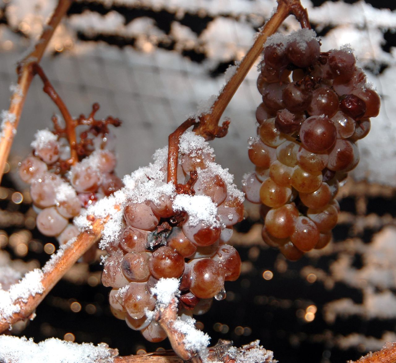 Photo of ice wine grapes, frozen on the vine. Niagara Peninsula, Canada